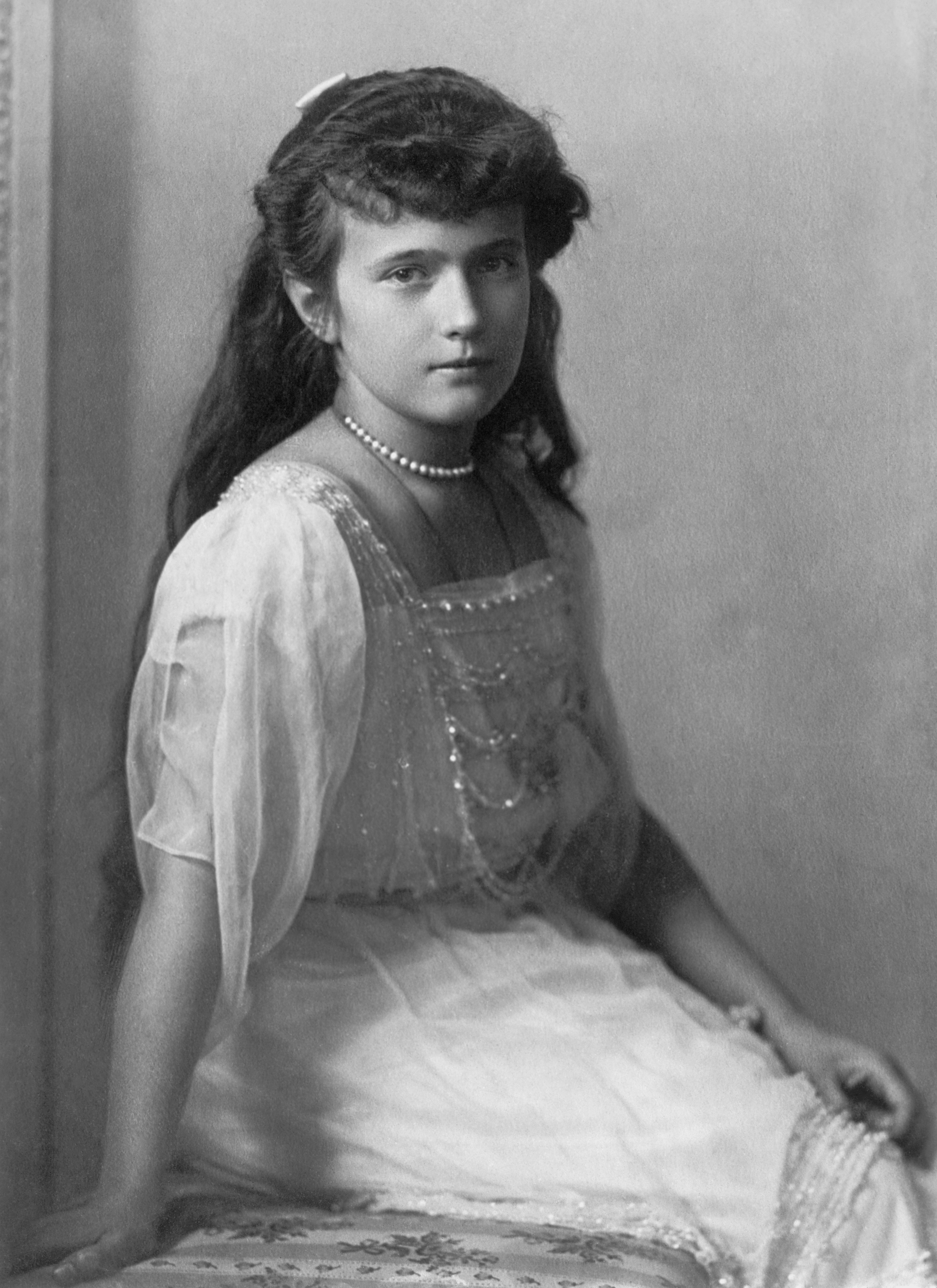 Grand Duchess Anastasia Nikolaevna of Russia; restoration completed by Crisco 1492 (uploader)